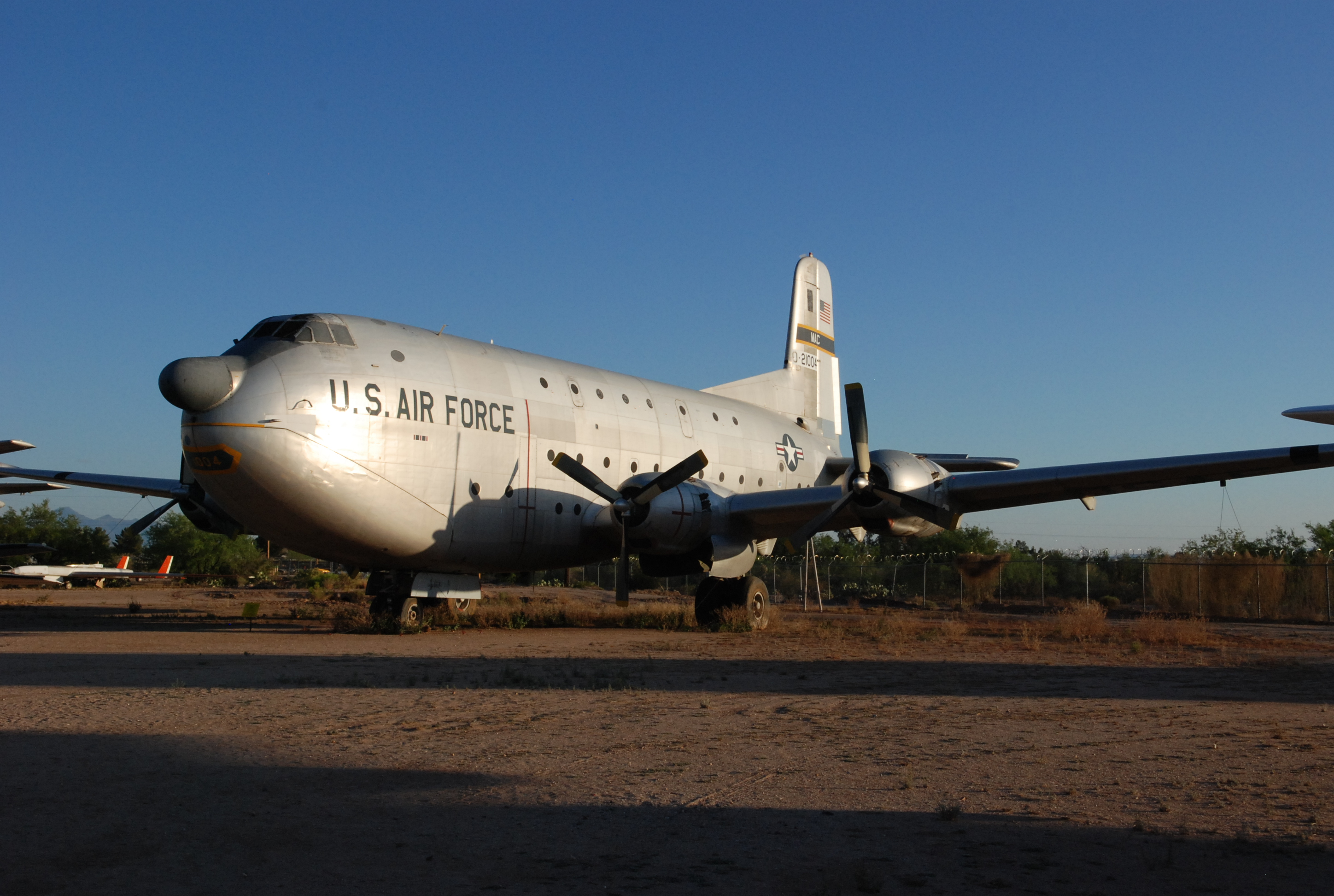 Pima Air & Space Museum - Tucson, AZ